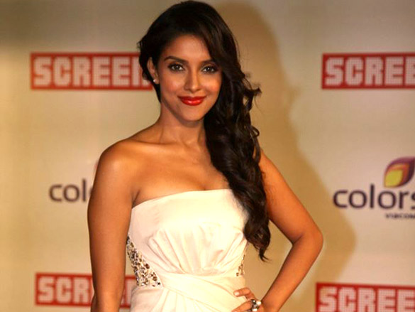 Asin at Screen Awards 2012